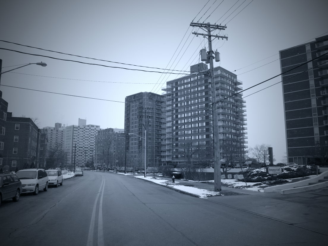 Gold coast high-rise apartment building located on the shore of Lake Erie in Lakewood, OH